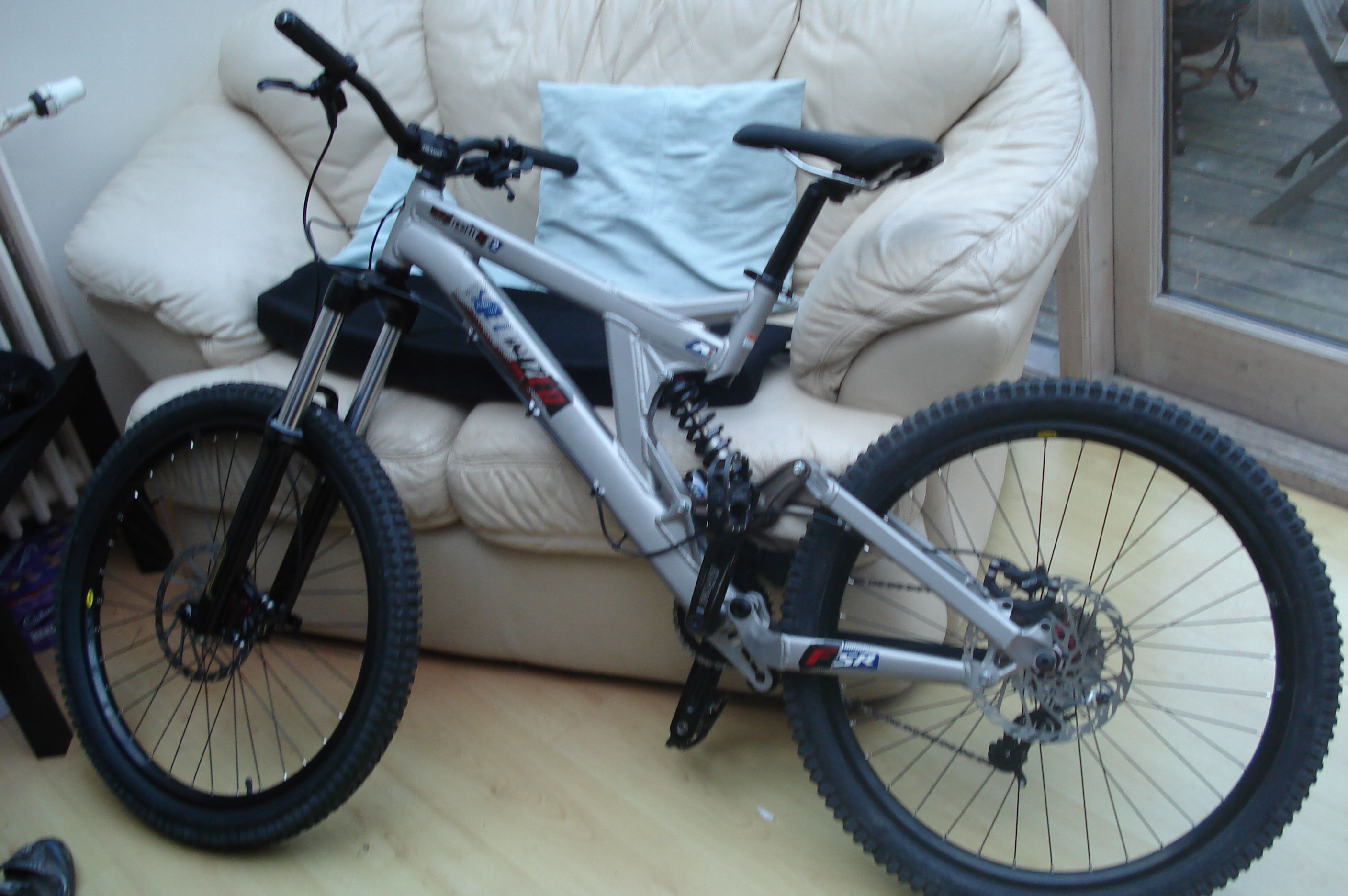 This is a picture I took of my Specialized BigHit II and I allow anyone to copy this picture and use it for whatever purpose they wish.